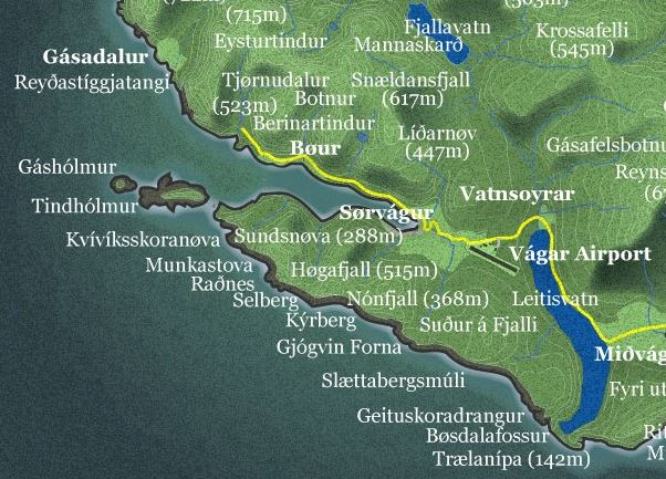 Sørvágsfjørður and surroundings on the island of Vágar, Faroe Islands. The village of Sørvágur is located at the center.